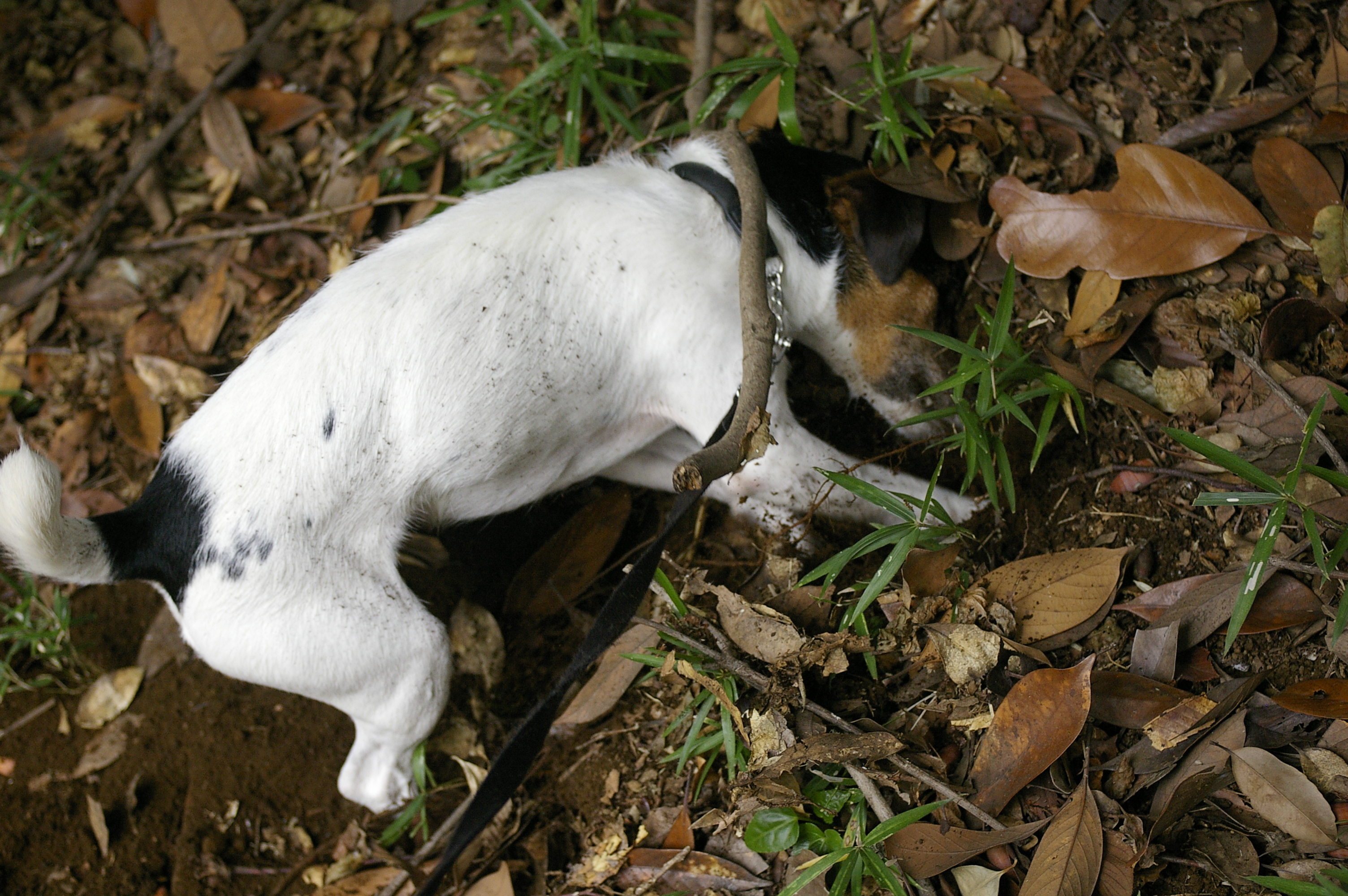 Jack Russell Terrier,dig the ground